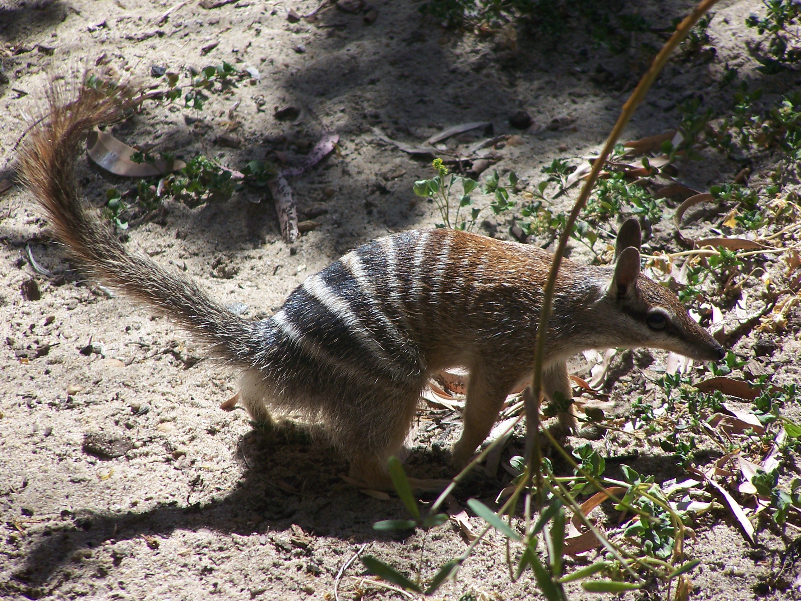 Female Numbat (Myrmecobius fasciatus) at the Perth Zoo